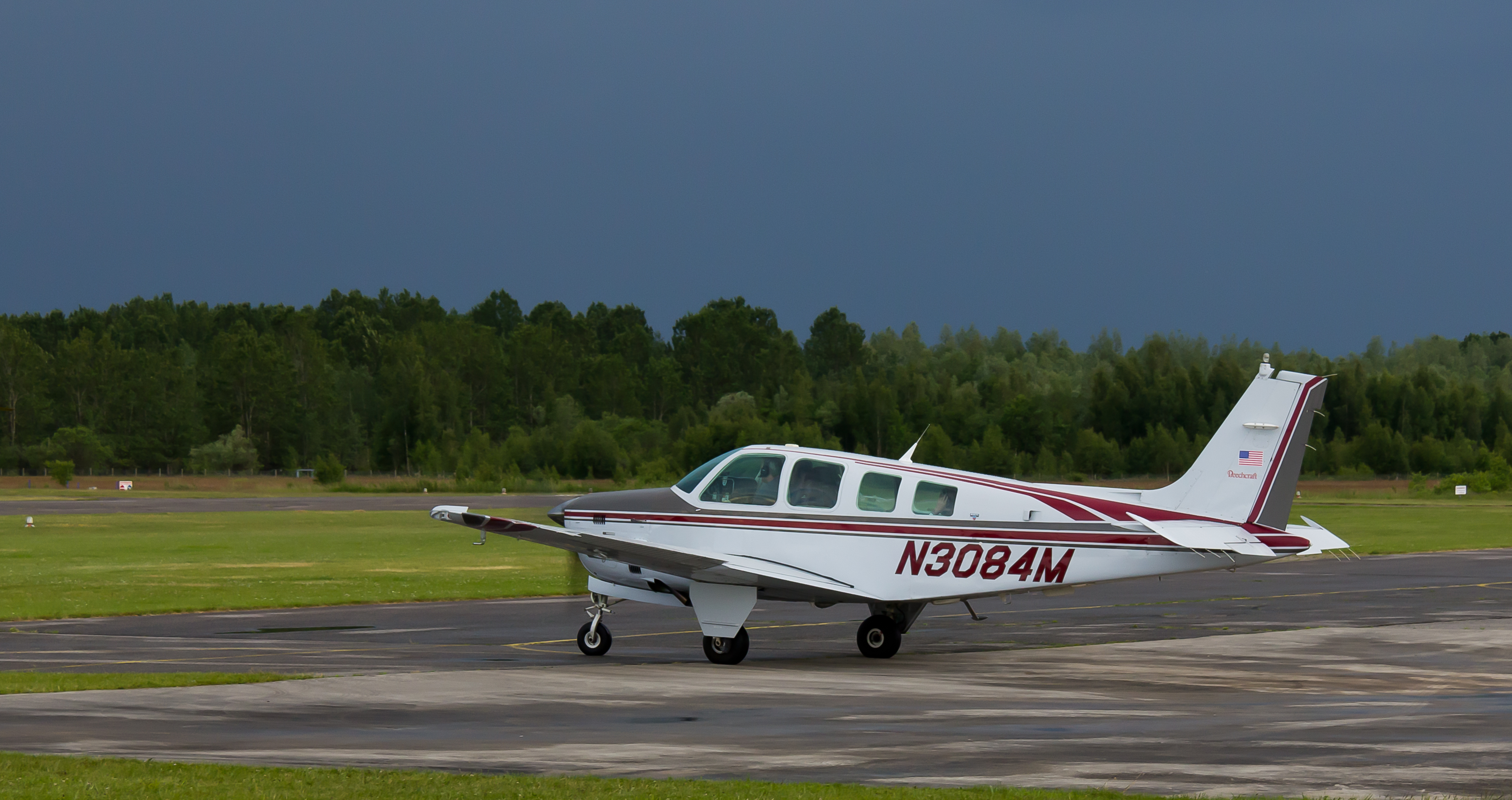 Beechcraft - N3084M - Airport Rendsburg-Schachtholm